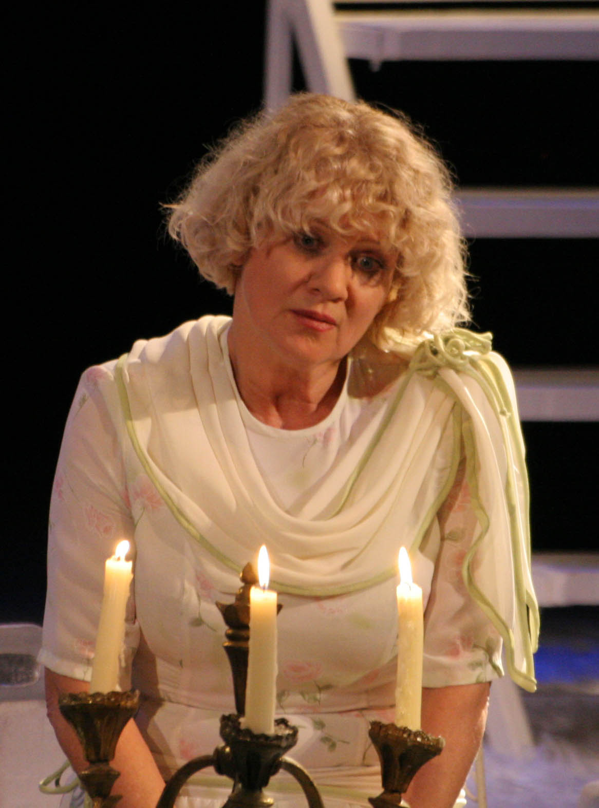 Performance Saratov Puppet Theatre "Teremok" «Glass Menagerie» based on the play by Tennessee Williams